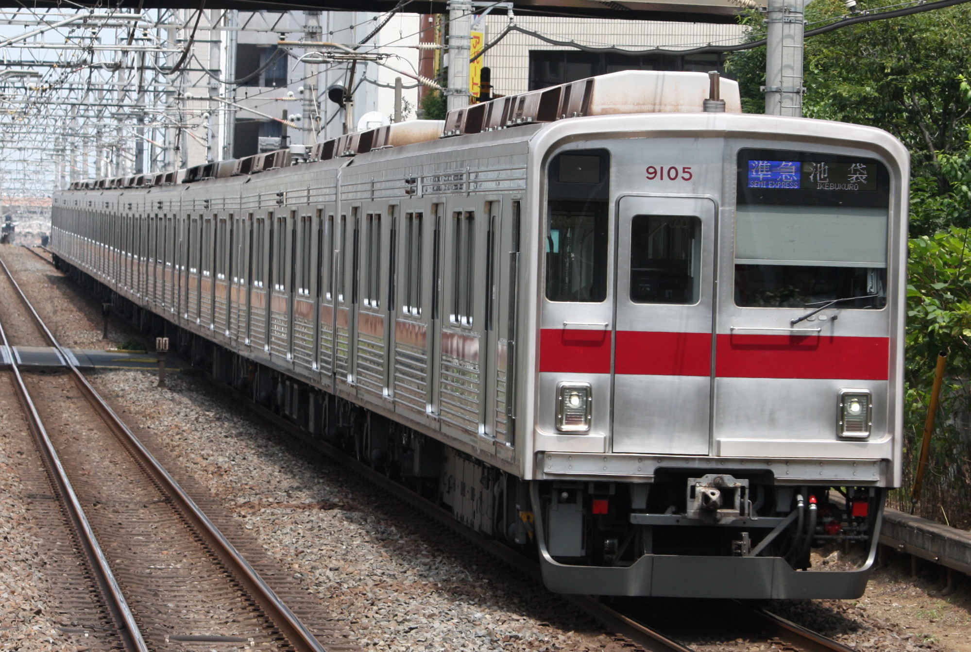 Refurbished Tobu 9000 series EMU set 9105 approaching Kawagoe Station on a Tobu Tojo Line semi-express service for Ikebukuro